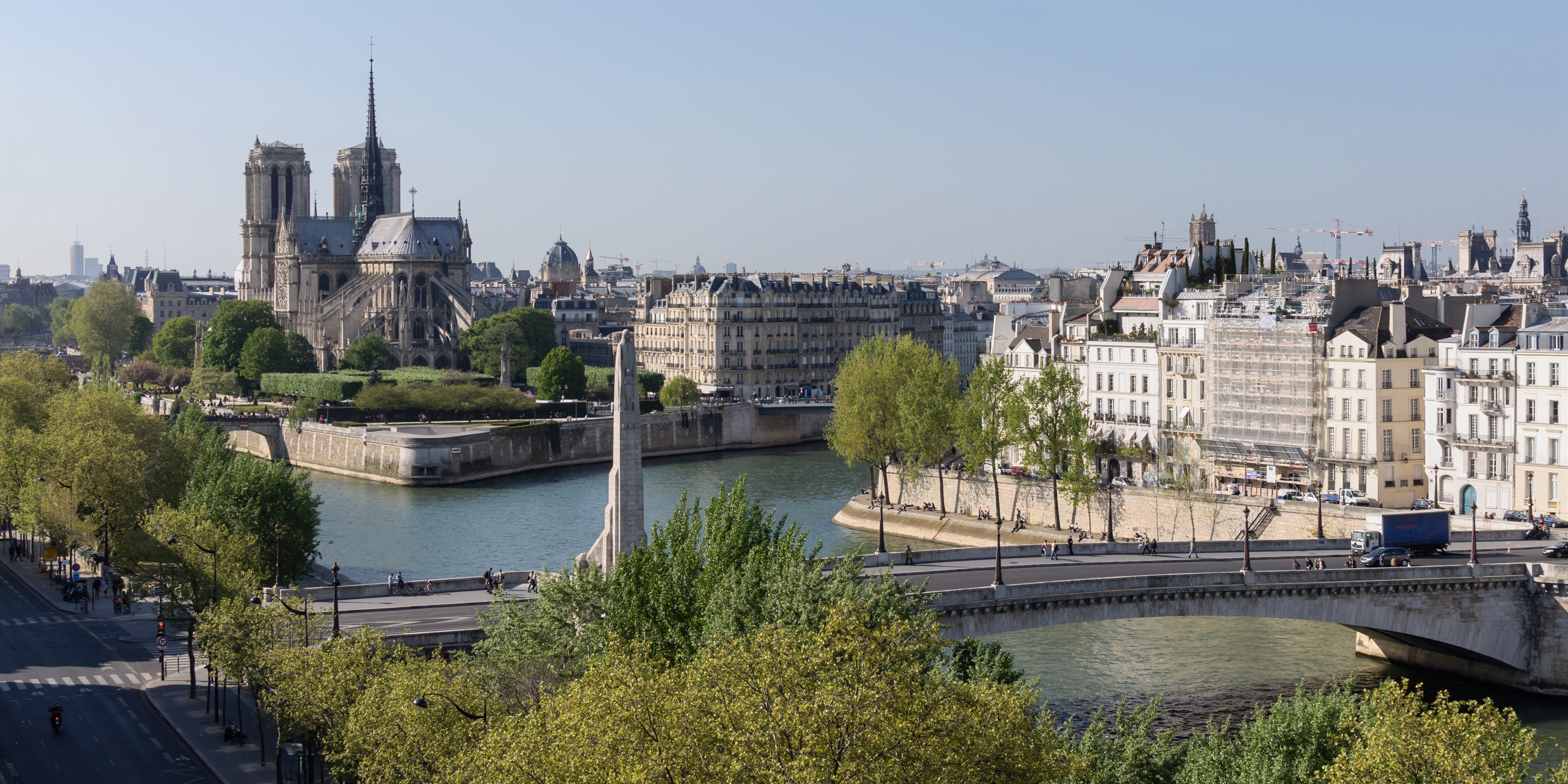 The Île de la Cité, the Île Saint-Louis and the Pont de la Tournelle seen from the Arab World Institute(Paris, France)